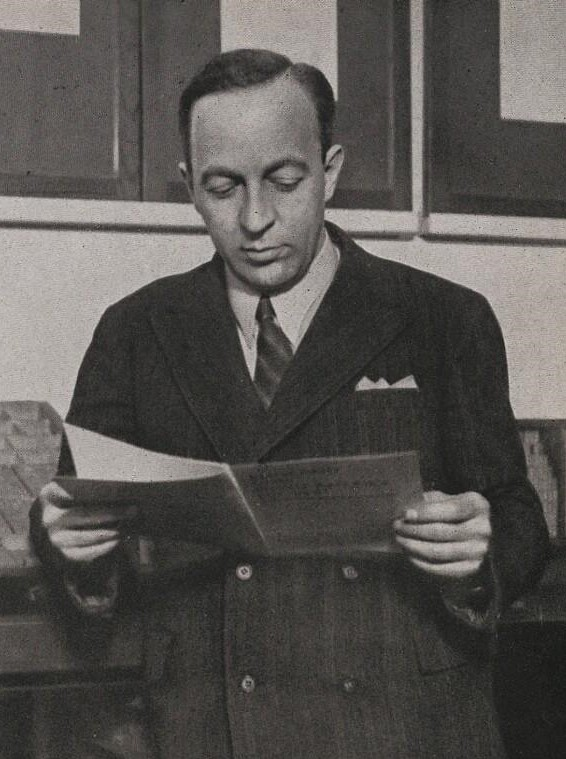 Ladislav Sutnar, Czech artist, 1934 (cropped photo)